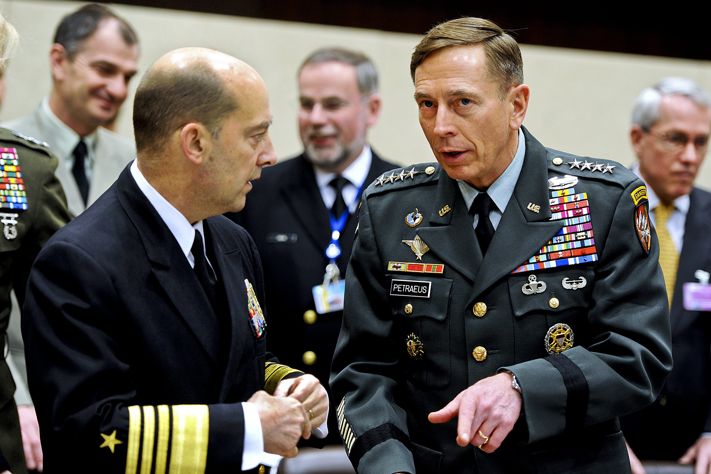 U.S. Army Gen. David H. Petraeus, right, commander of NATO and U.S. forces in Afghanistan, speaks with U.S. Navy Adm. James G. Stavridis, commander of European Command and NATO's supreme allied commander for Europe, at NATO headquarters in Brussels, Belgium, March 11, 2011. DOD photo by Cherie Cullen